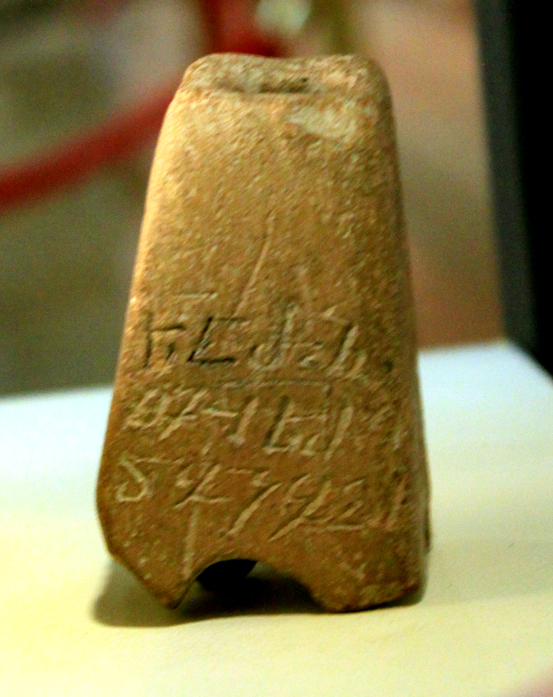 Alban yazılı şamdan